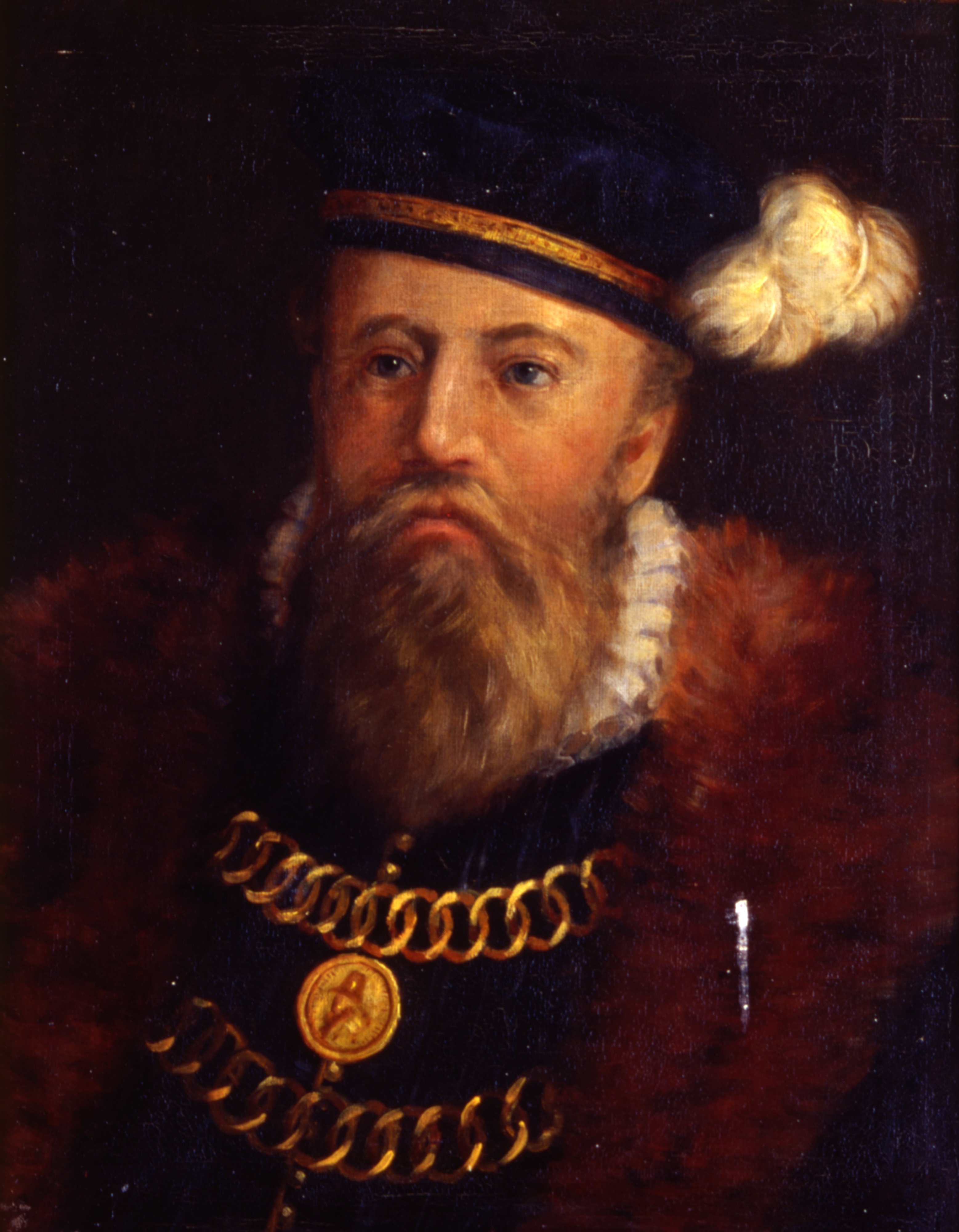 Copy of a miniatyr portrait